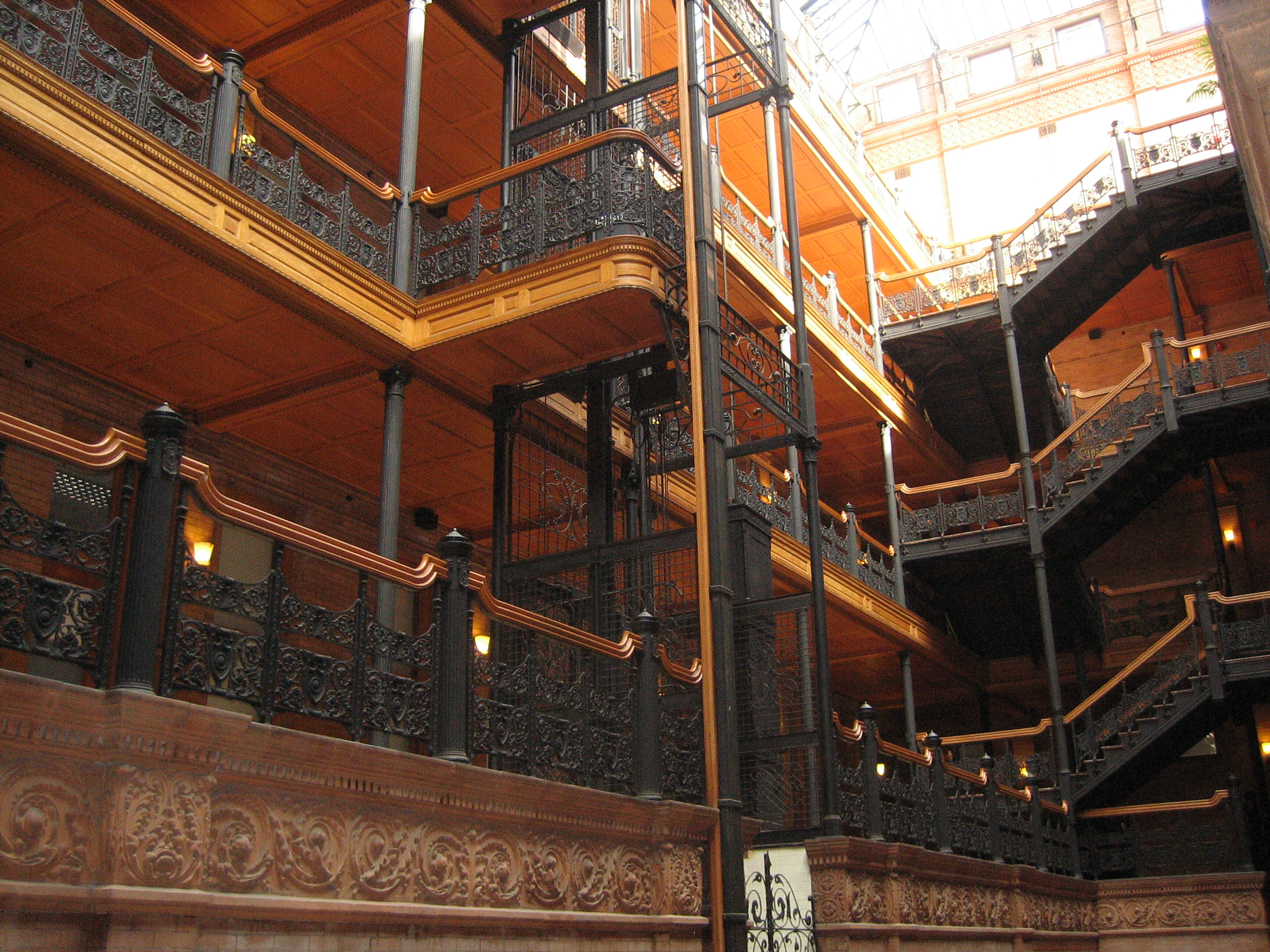 It's ornate and beautiful!